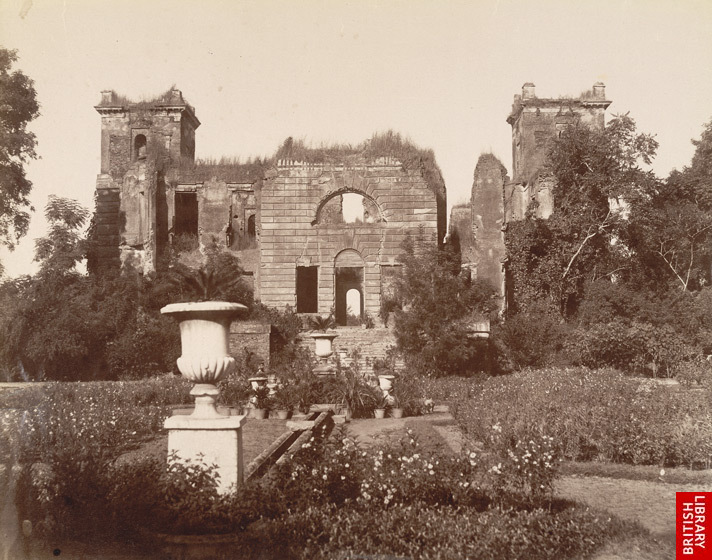 A ruined Dilkusha Kothi in Lucknow